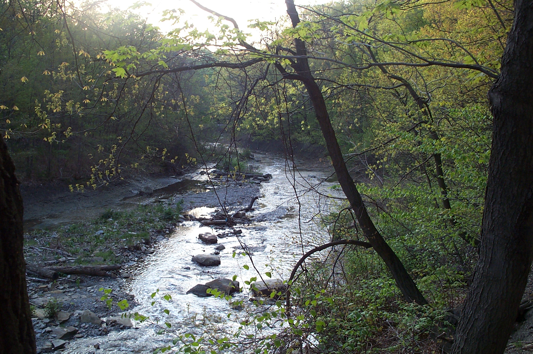 Euclid Creek near Euclid city in Ohio, United States.